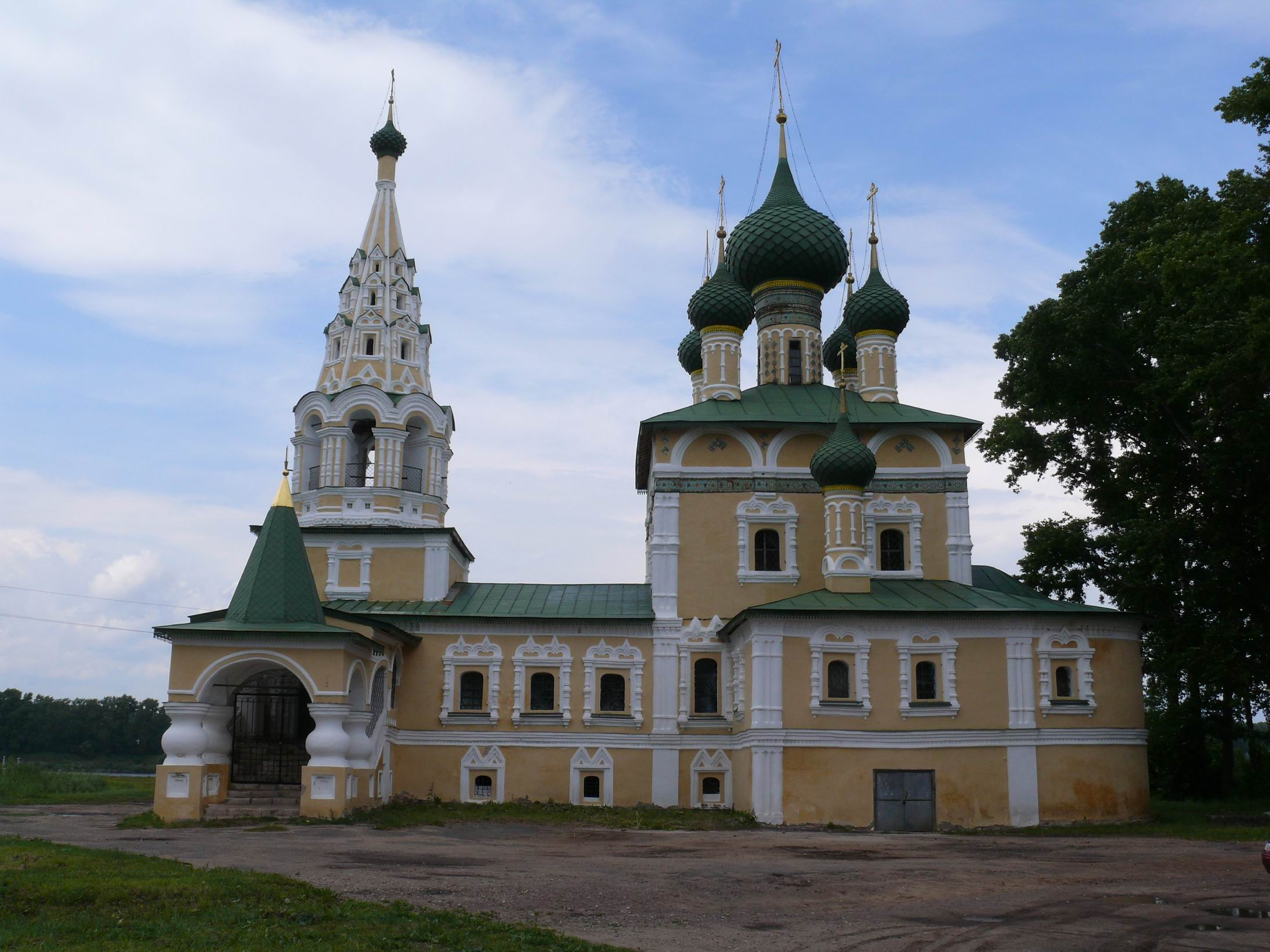 Church of the Nativity of John the Baptist "on the Volga" (1689-1690) in Uglich